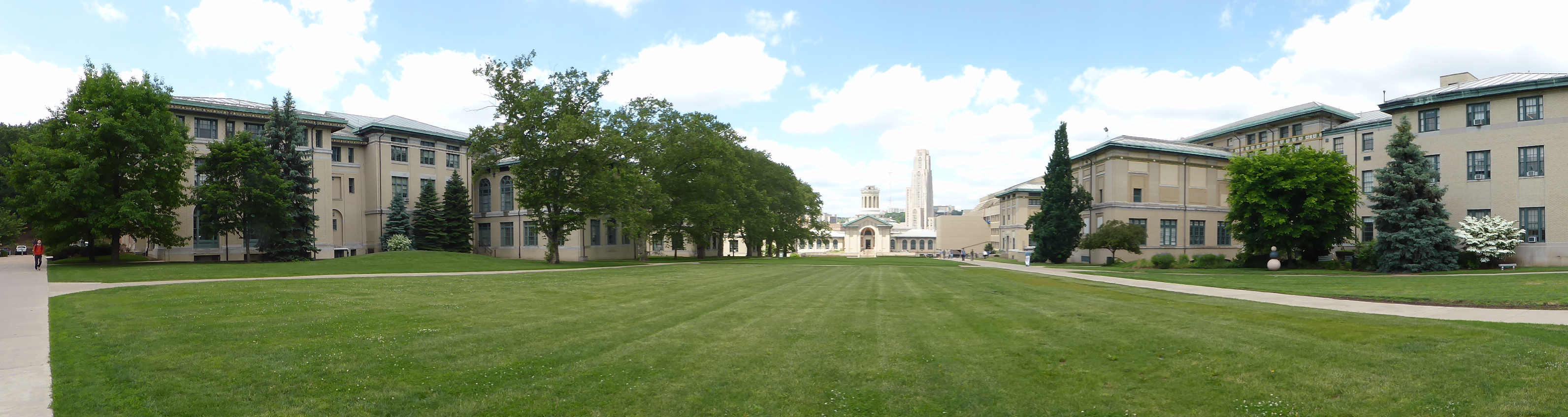 Carnegie Mellon University, Pittsburgh, Pennsylvania.